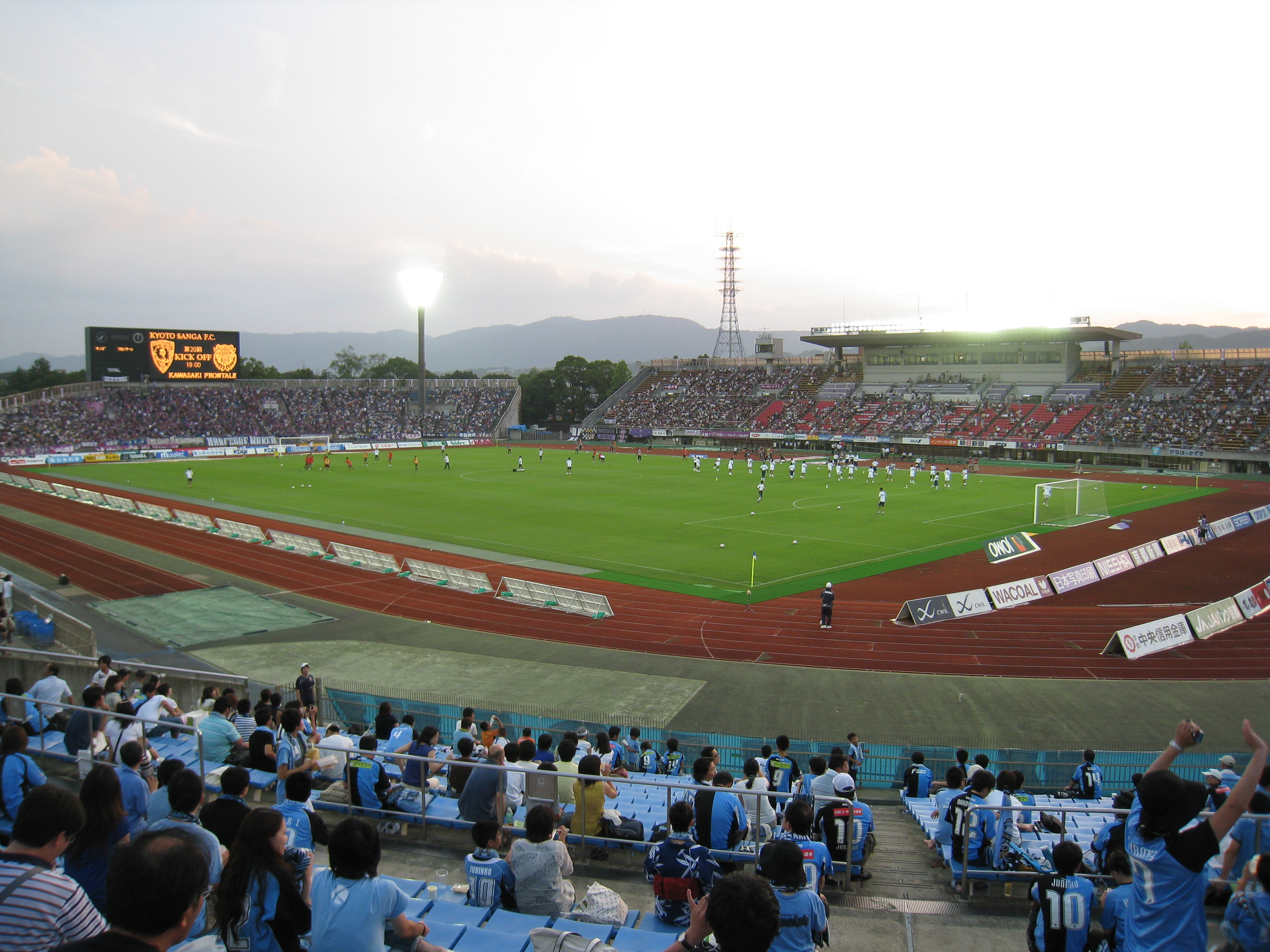 Nishikyogoku Stadium. Kyoto-Pref,Japan